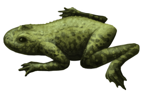 Callobatrachus, an extinct genus of discoglossid frog. Proportions and anatomy are modeled after the diagrams and information in the diagnostic paper by K. Gao and Y. Wang (1999).